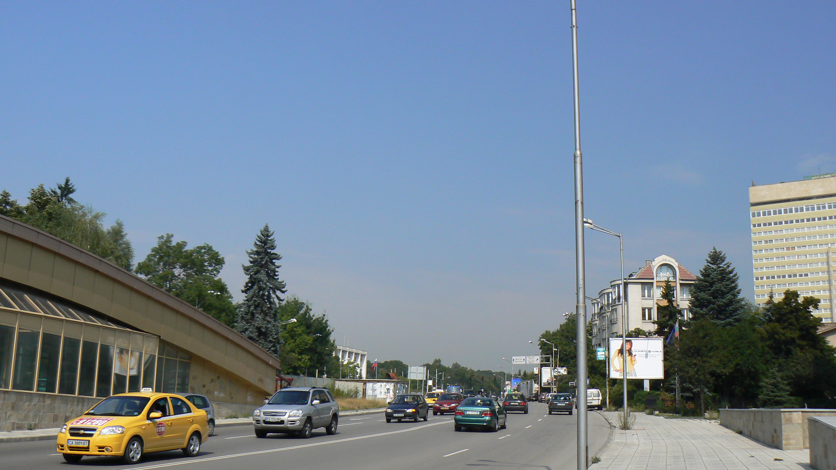 Dragan Tzankov Blvd, Sofia. Exit of subway station Interpred, The Russian embassy and Park-hotel "Moskva"